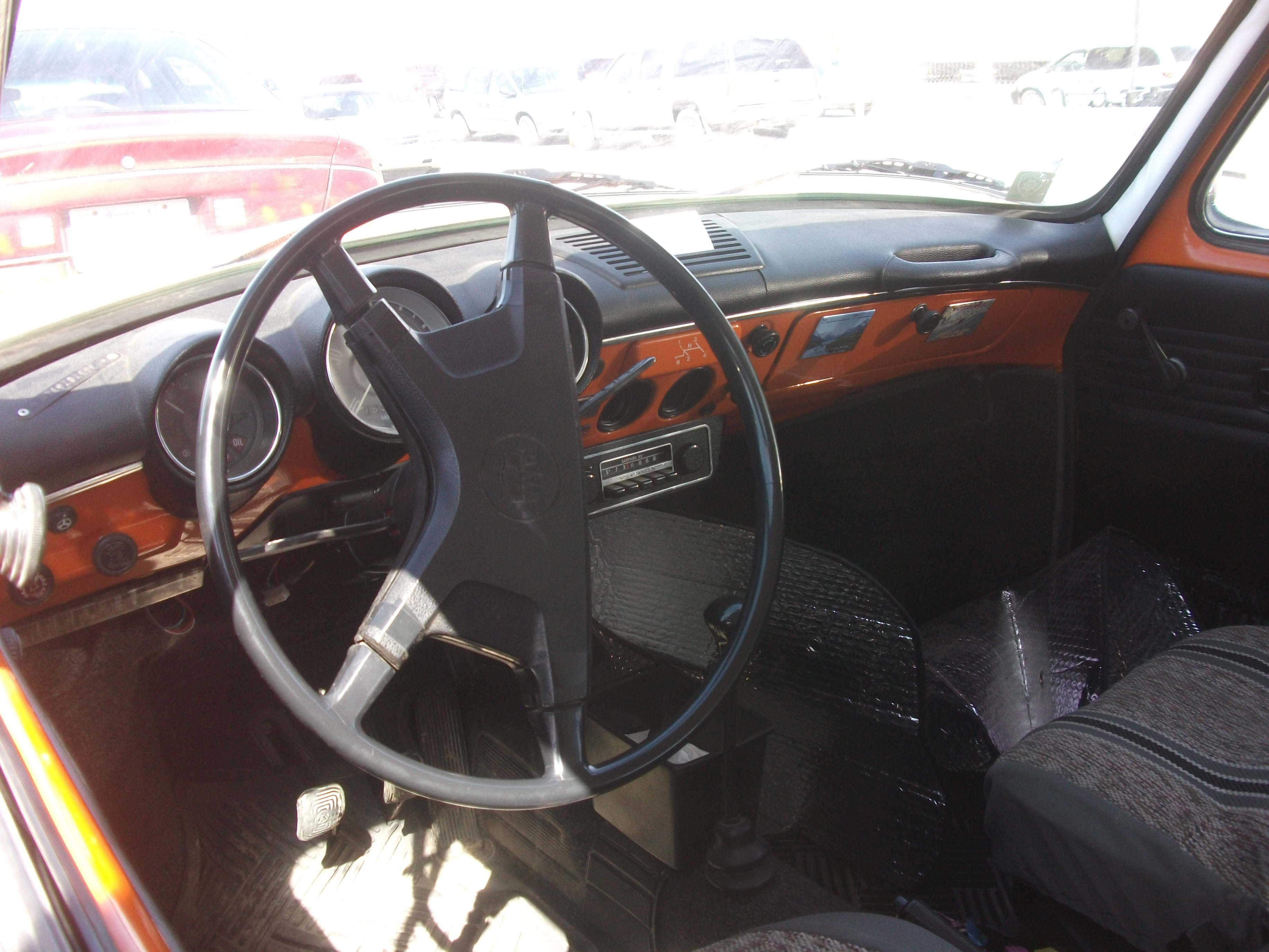 Saw this neat Volkswagen Squareback Type 3 in the Walmart parking lot in Pincher Creek, Alberta. The orange is the perfect colour for these.